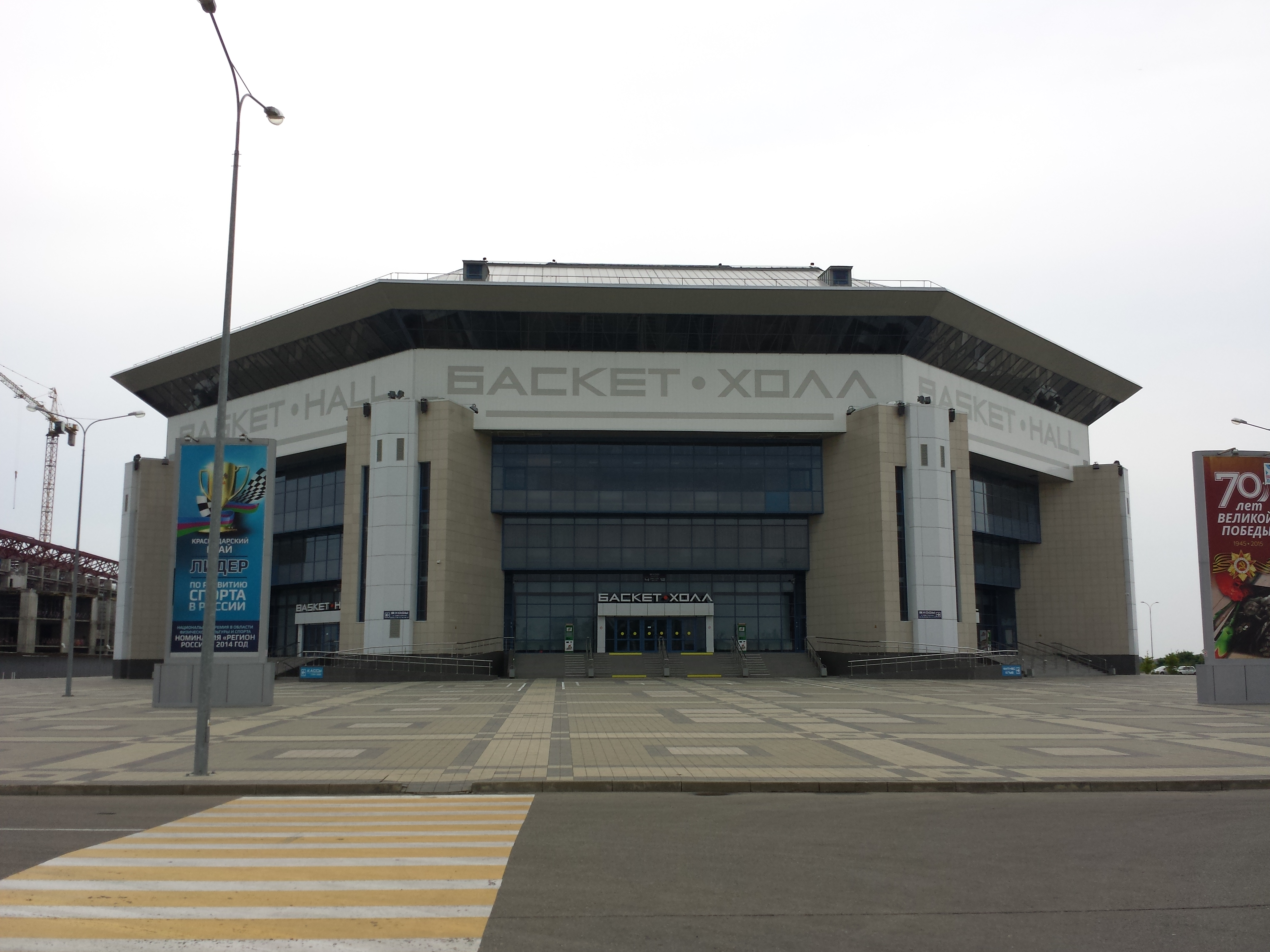 Basket-Hall (Krasnodar) on 2015-07-10